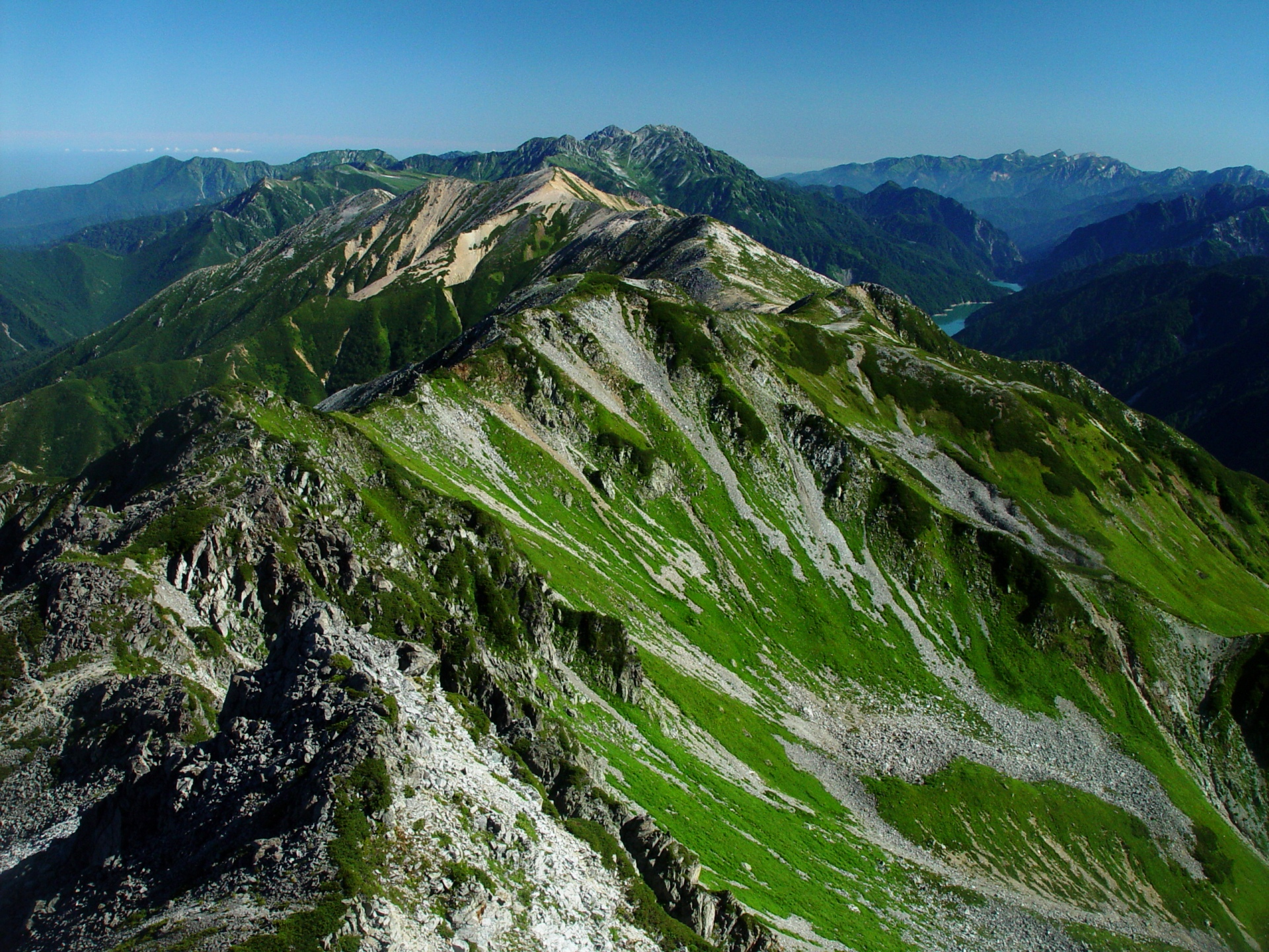 Mount_Akaushi (Akaushi-dake) seen from Mount Suisho